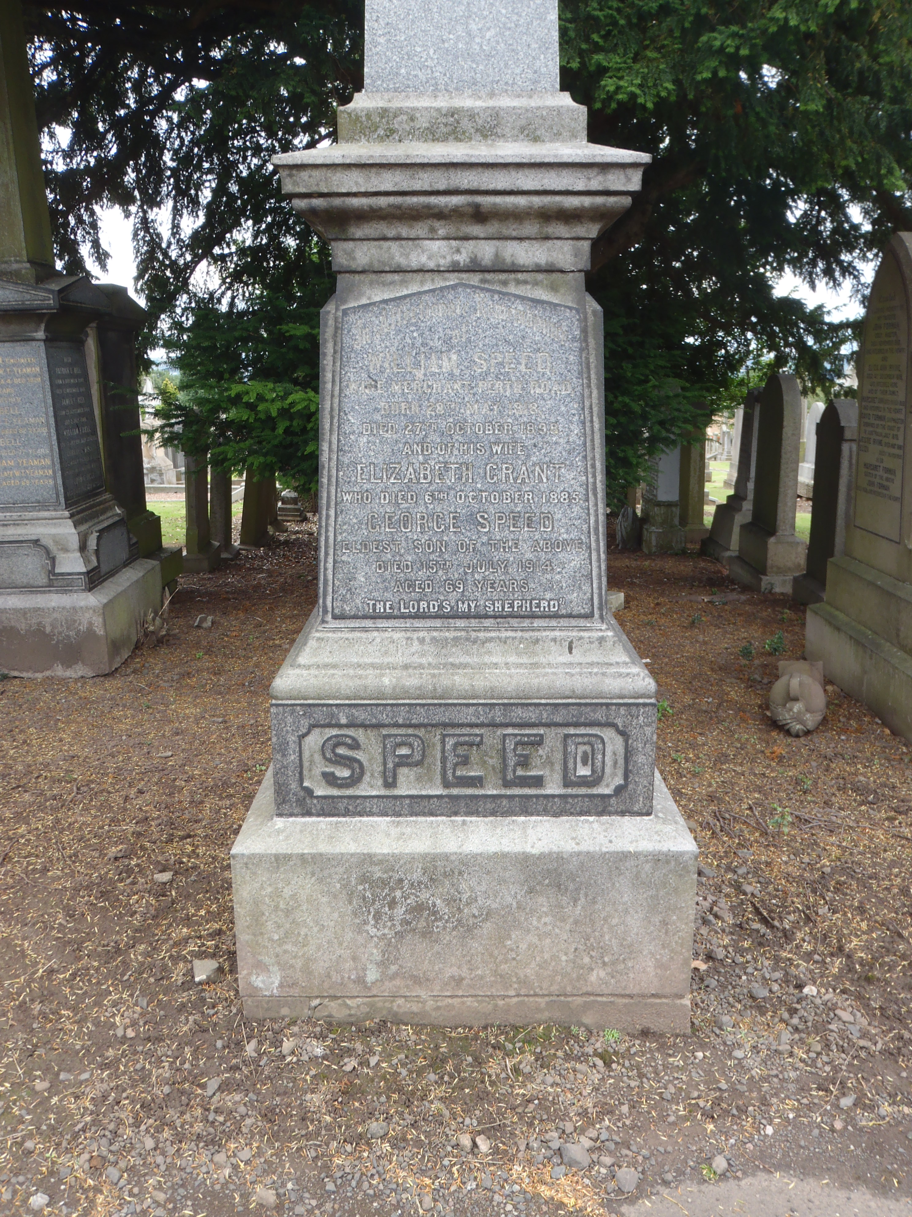 Gravestone, Speed, Western Cemetery, Dundee, Scotland.